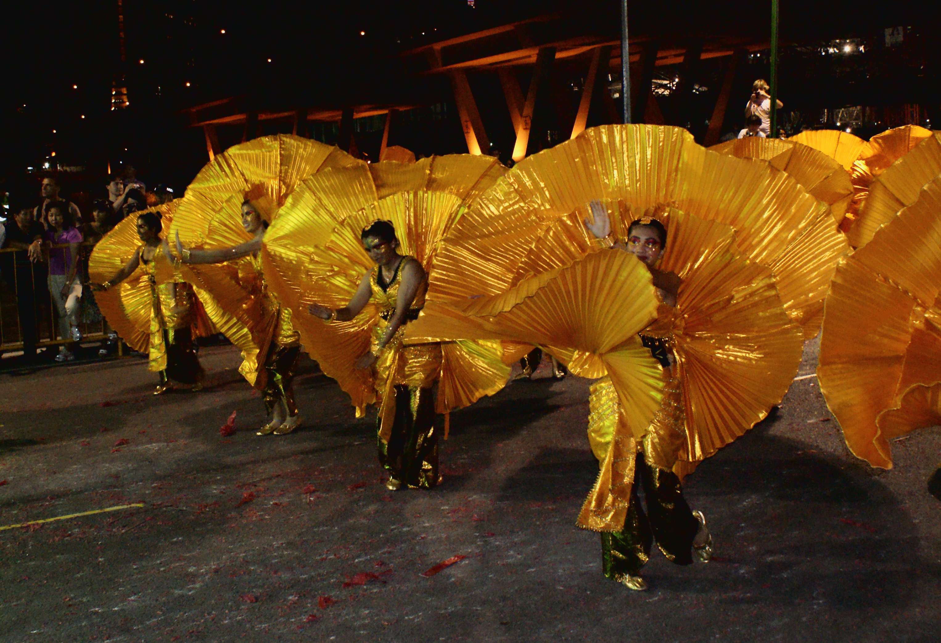 Chinese New Year celebration 2010 in Singapore.